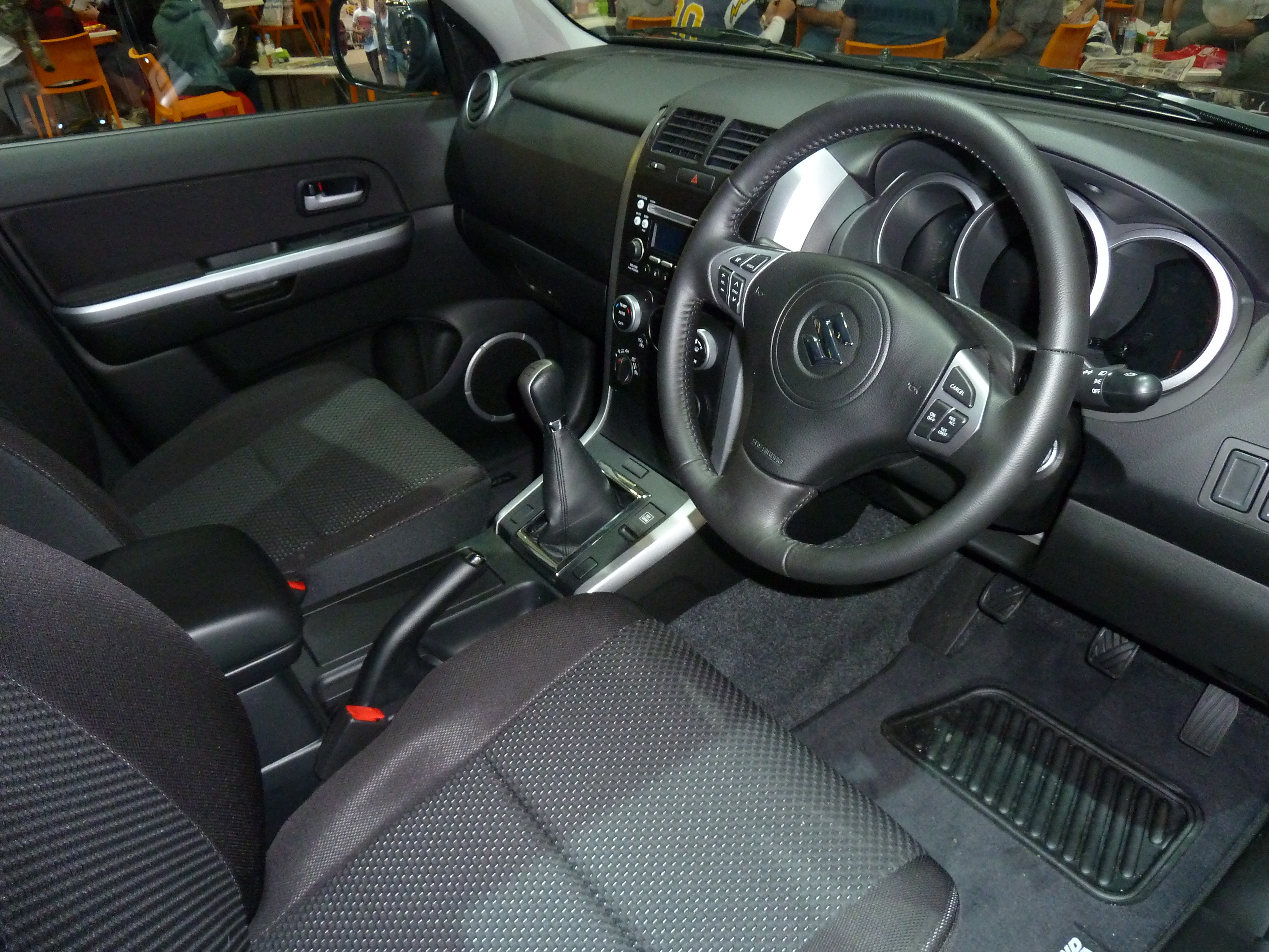 2010 Suzuki Grand Vitara (JB MY09) Urban 5-door wagon. Photographed at the 2010 Australian International Motor Show, Sydney, New South Wales, Australia.